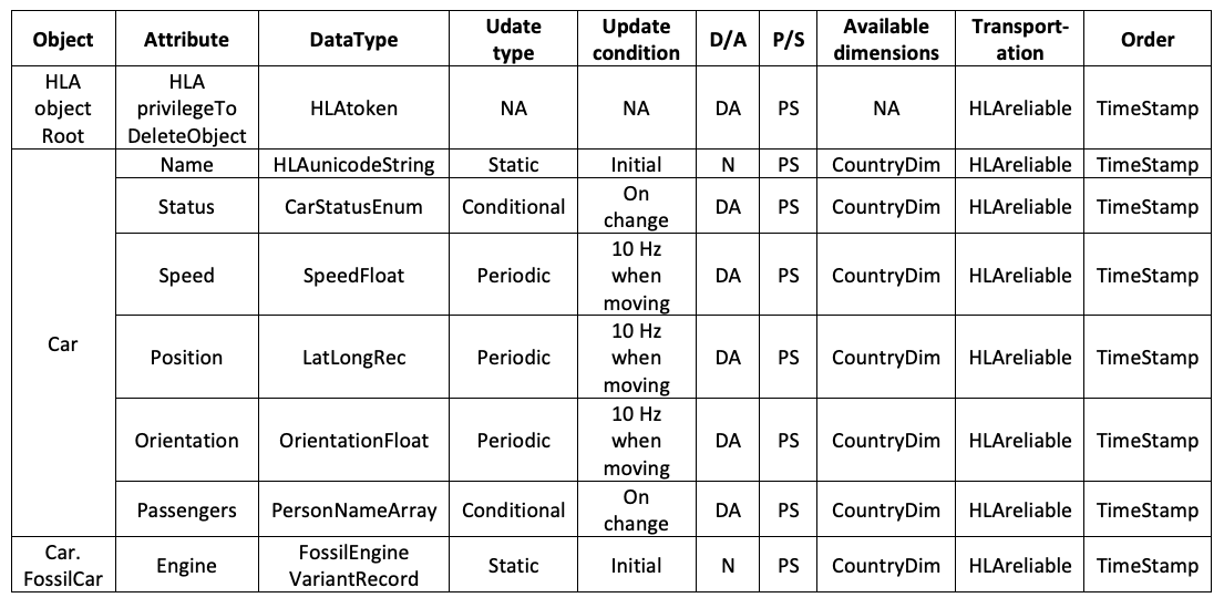 Sample HLA Attribute Table according to IEEE 1516-2010